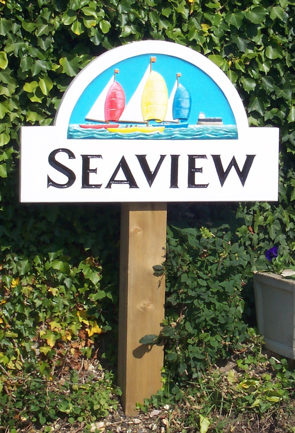 Village sign one sees on approaching Seaview, Isle of Wight, UK.